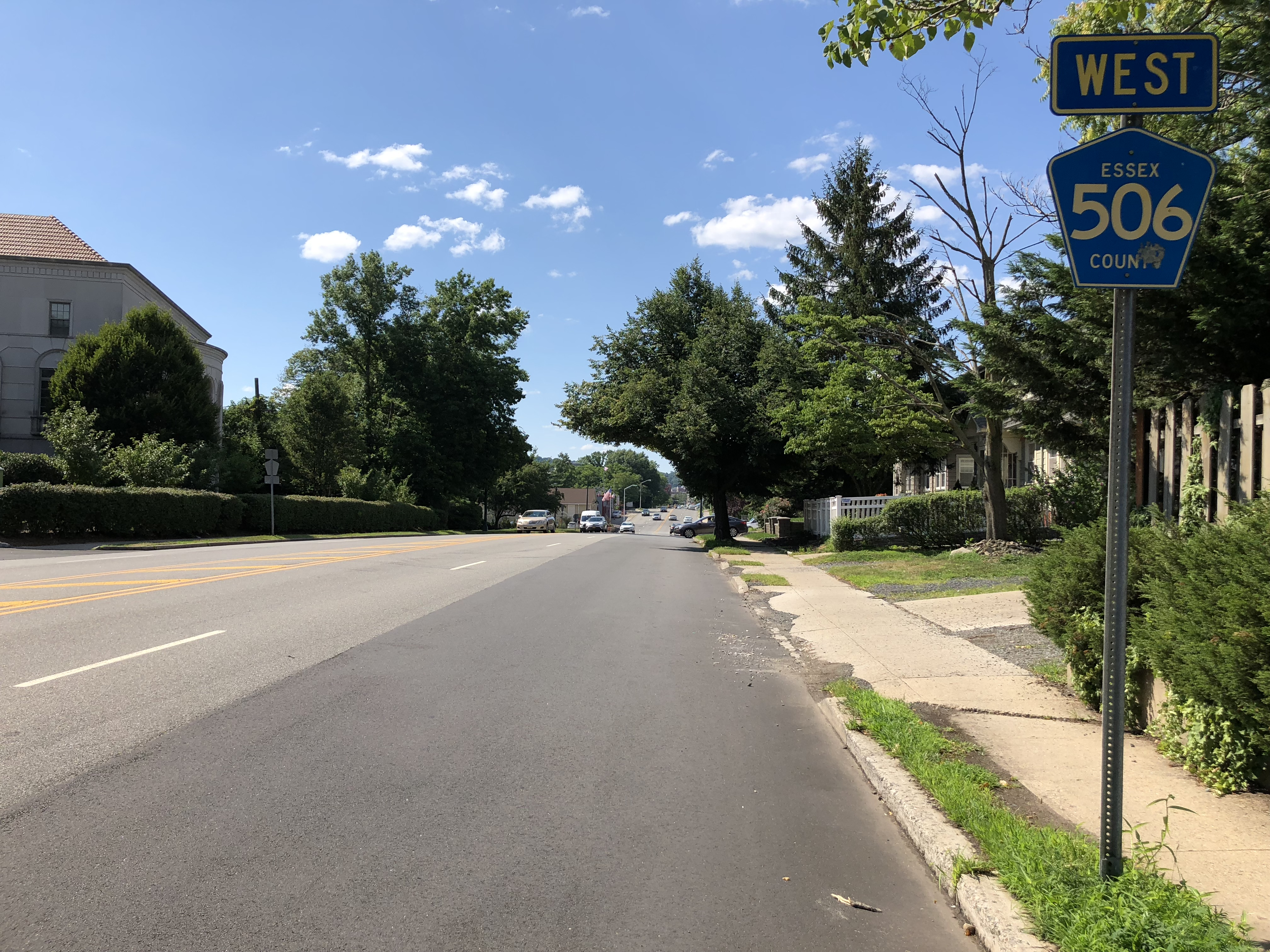 View west along Essex County Route 506 (Bloomfield Avenue) just west of Freeman Parkway/Highland Avenue in Glen Ridge, Essex County, New Jersey